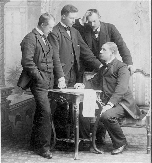 Photo of the four participants in the failed Andrée-balloonexpedition summer 1897. From left to right: Vilhelm Swedenborg, Nils Strindberg, Knut Frænkel and Salomon August Andrée.